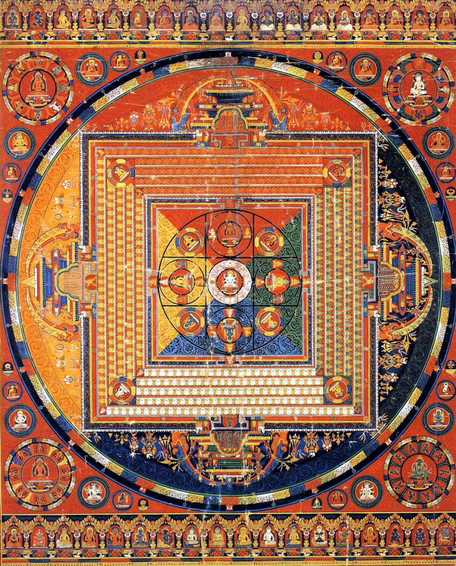 Tibetan Buddhist thangka painting